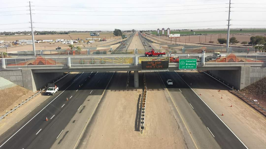 Interstate 8 running through the City of El Centro over a newly widened Dogwood Ed Overpass.